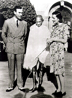 With the Mountbattens at the Viceroy's House, New Delhi, March 1947